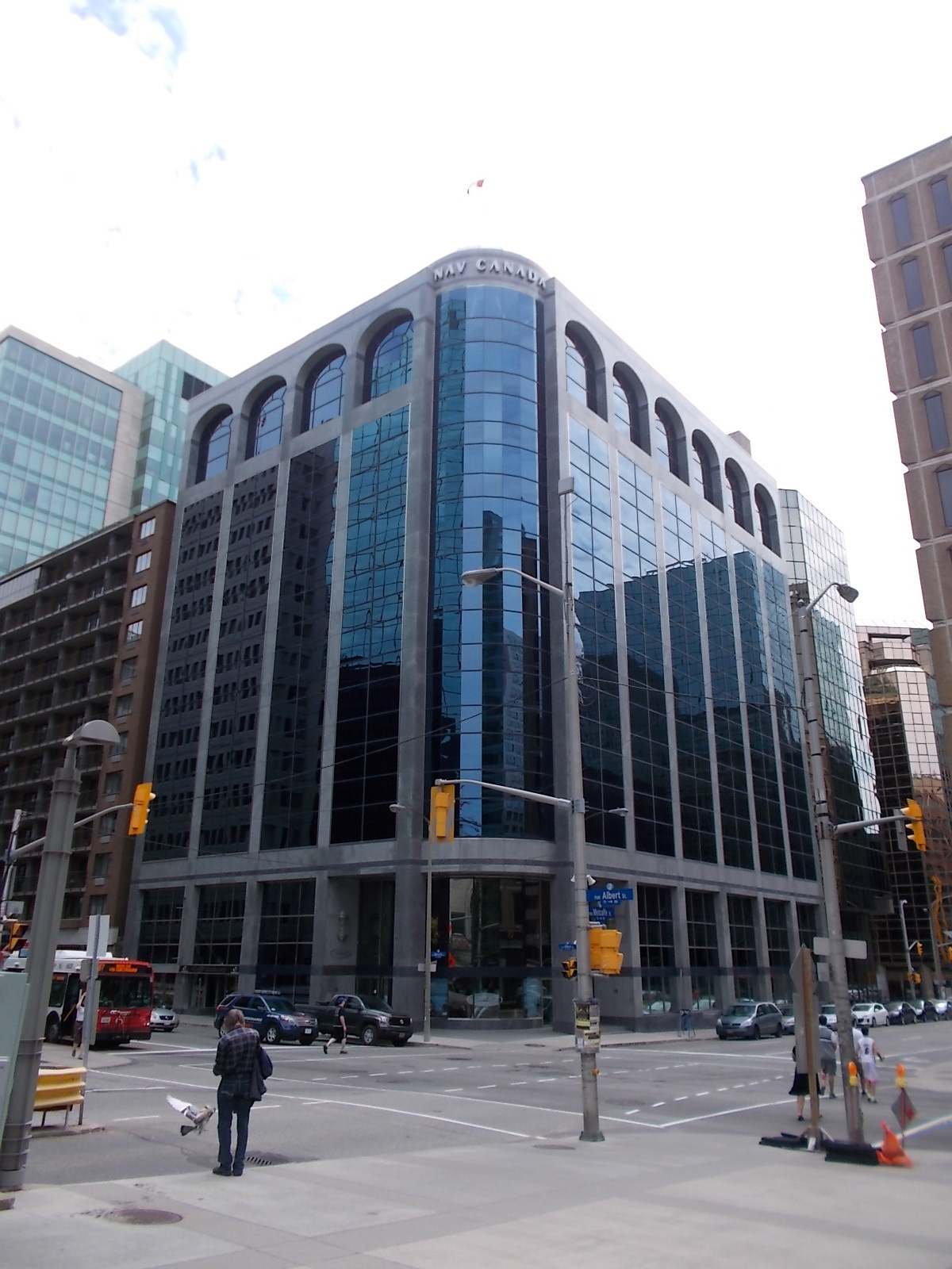 Nav Canada Headquarters in the Commonwealth Building at 77 Metcalfe Street Ottawa, ON K1P 5L6 Canada